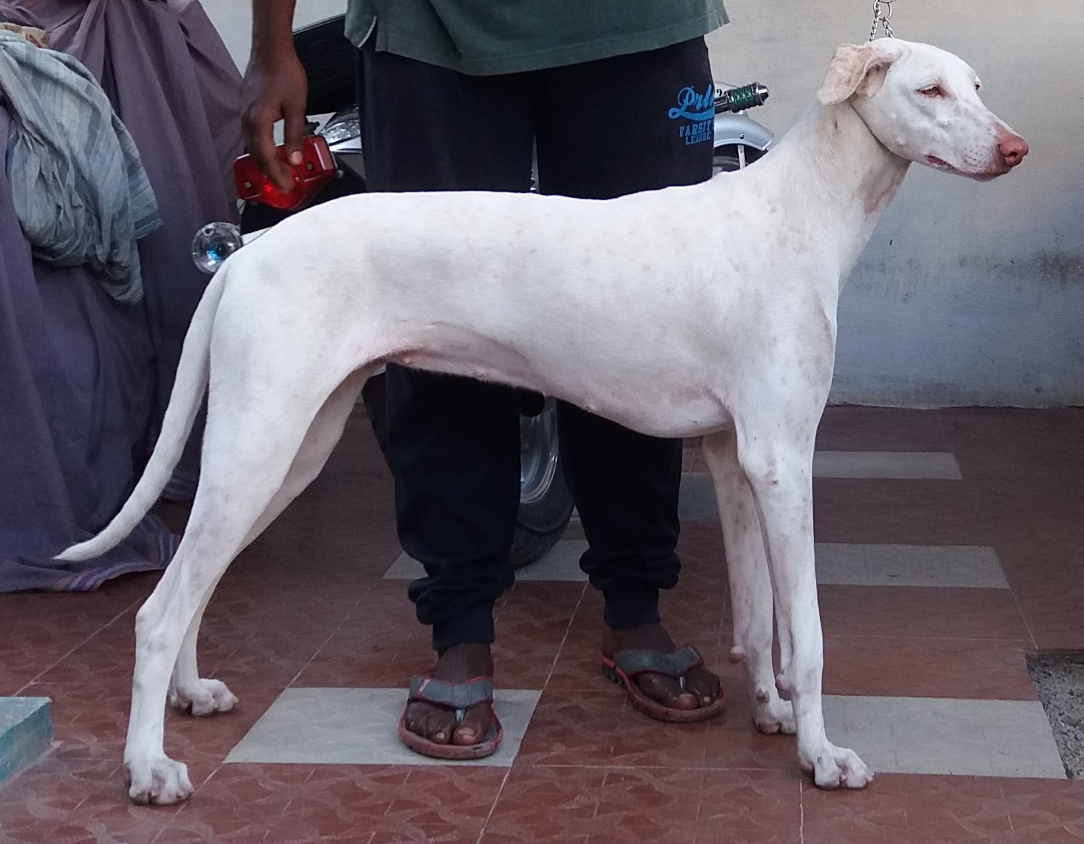 Semi-adult female rajapalayam dog